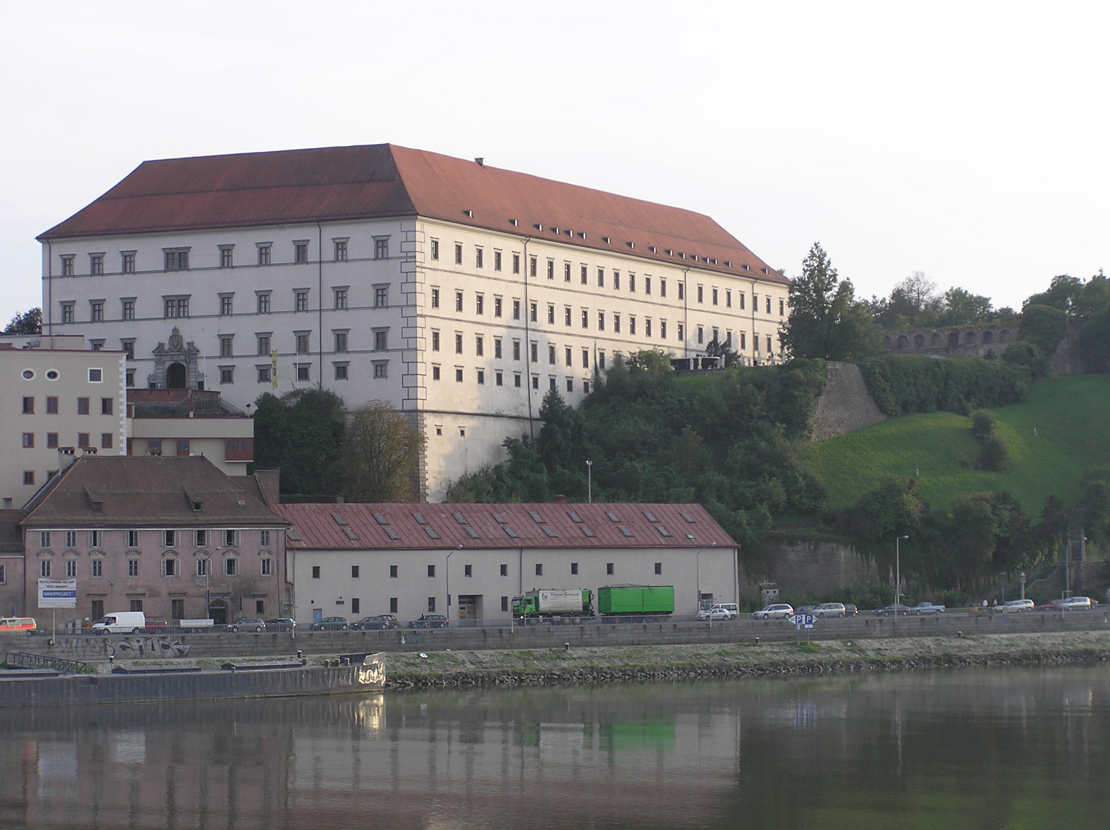 Linz castle, view from the Nibelungenbrücke